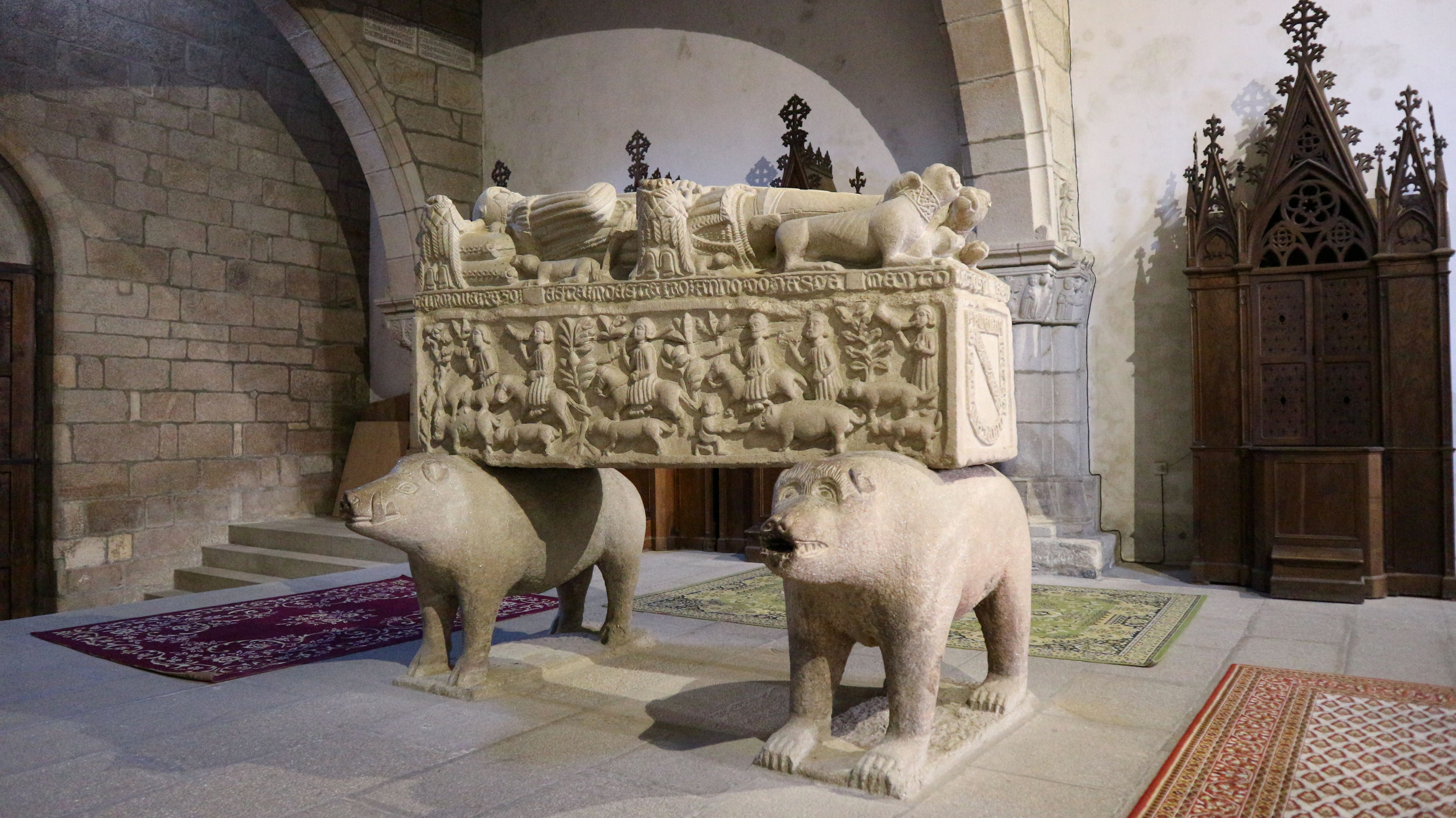 Fernán Peres de Andrade, o Boo. Church of San Francisco of Betanzos, Betanzos (A Coruña, Galicia).